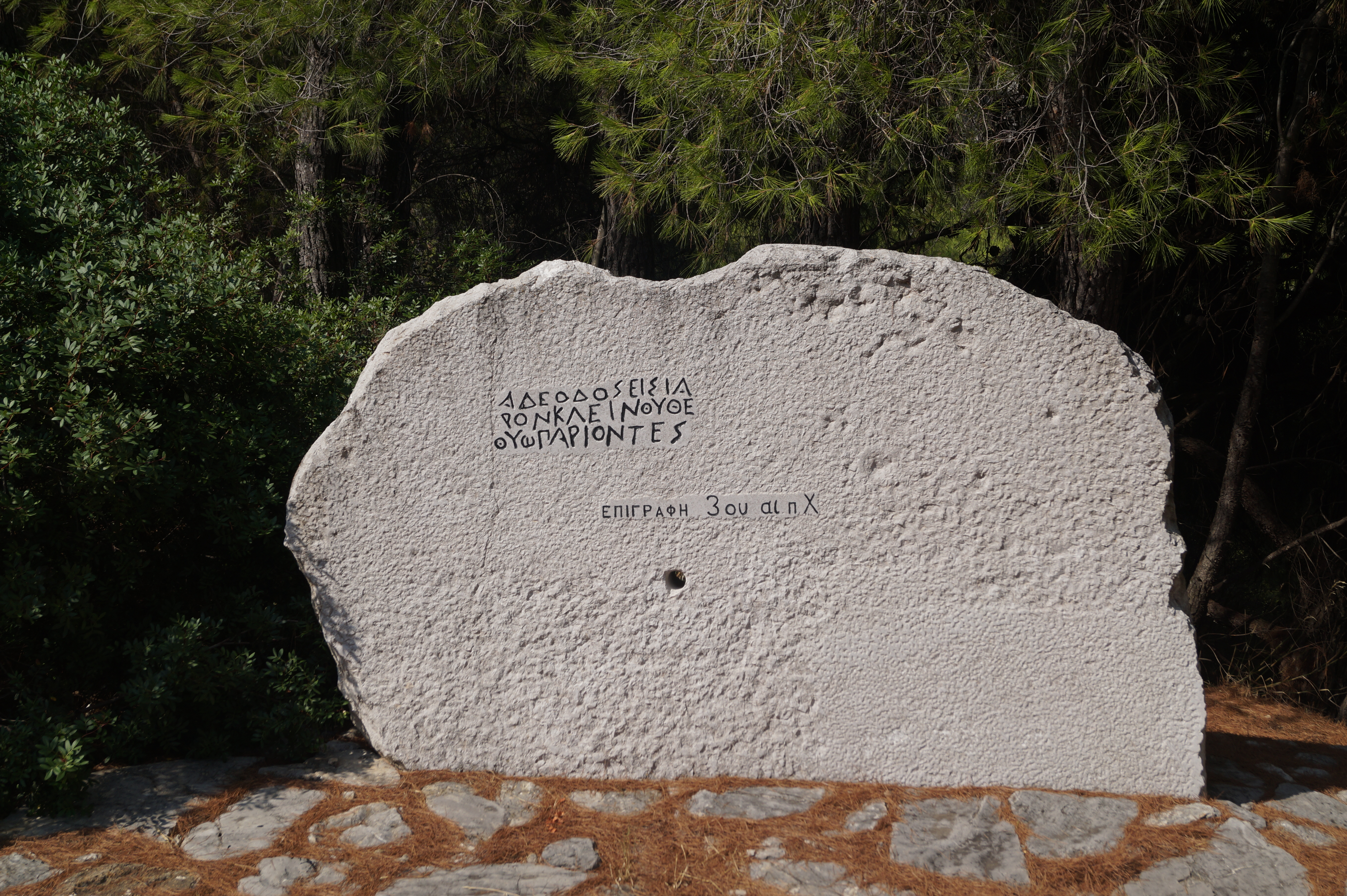 Agios Andreas, Epidaurus, Greece: Copy of a inscription of the 3rd cent. BC found on the Pilgrims' way of Epidaurus:ΑΔΕ ΟΔΟΣ ΕΙΣ ΙΑΡΟΝ ΚΛΕΙΝΟΥ ΘΕΟΥ Ω ΠΑΡΙΟΝΤΕΣ Reisende diese Straße führt zum Heiligtum des Gottes der Heilung